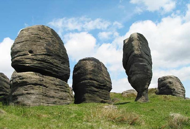 Bridestones Todmorden. A good example of free face retreat. Which has produced these fine specimens of gritstone tors.